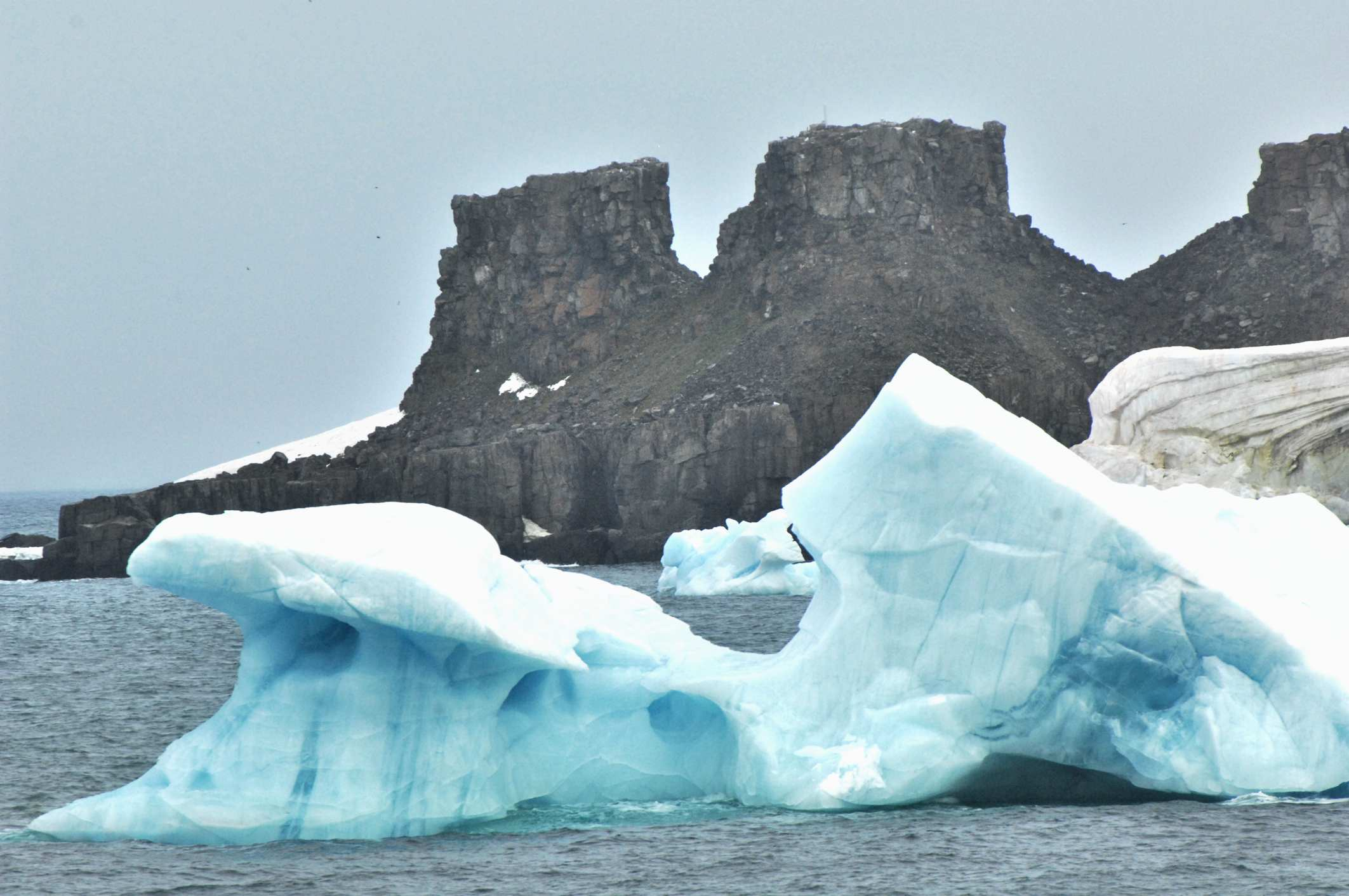 Cape Stolbowoi (Northwestern tip of Rudolf Island, Franz Josef Archipelago, Russia; 81°45‘22’’N, 57°57‘32’’E)